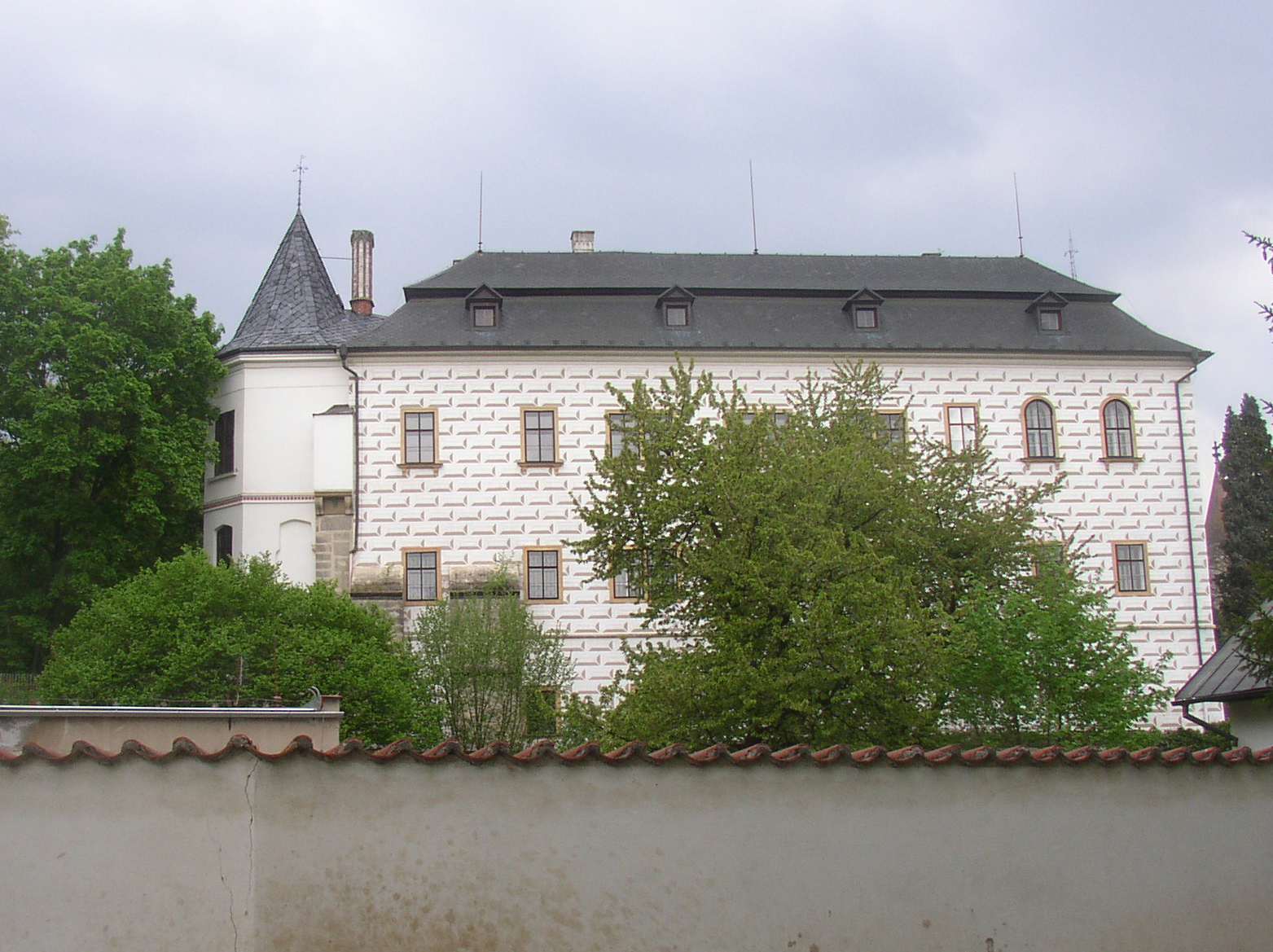 Slatiňany Castle, Chrudim District, Czech Republic. A view from the east.